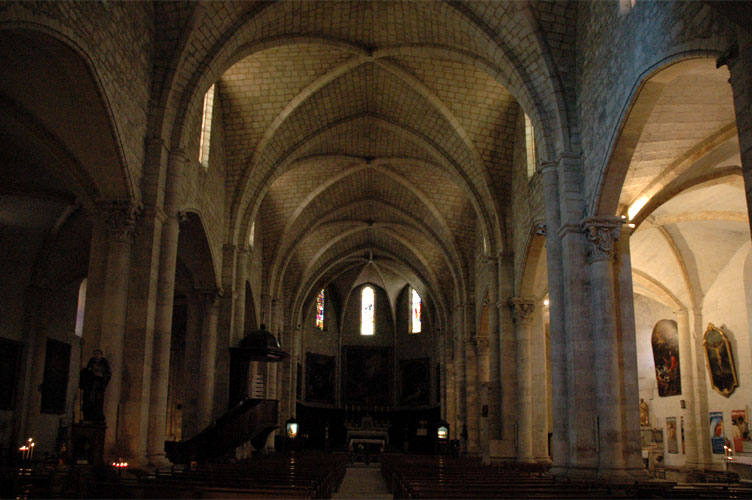 Church of Saint-Gilles. France